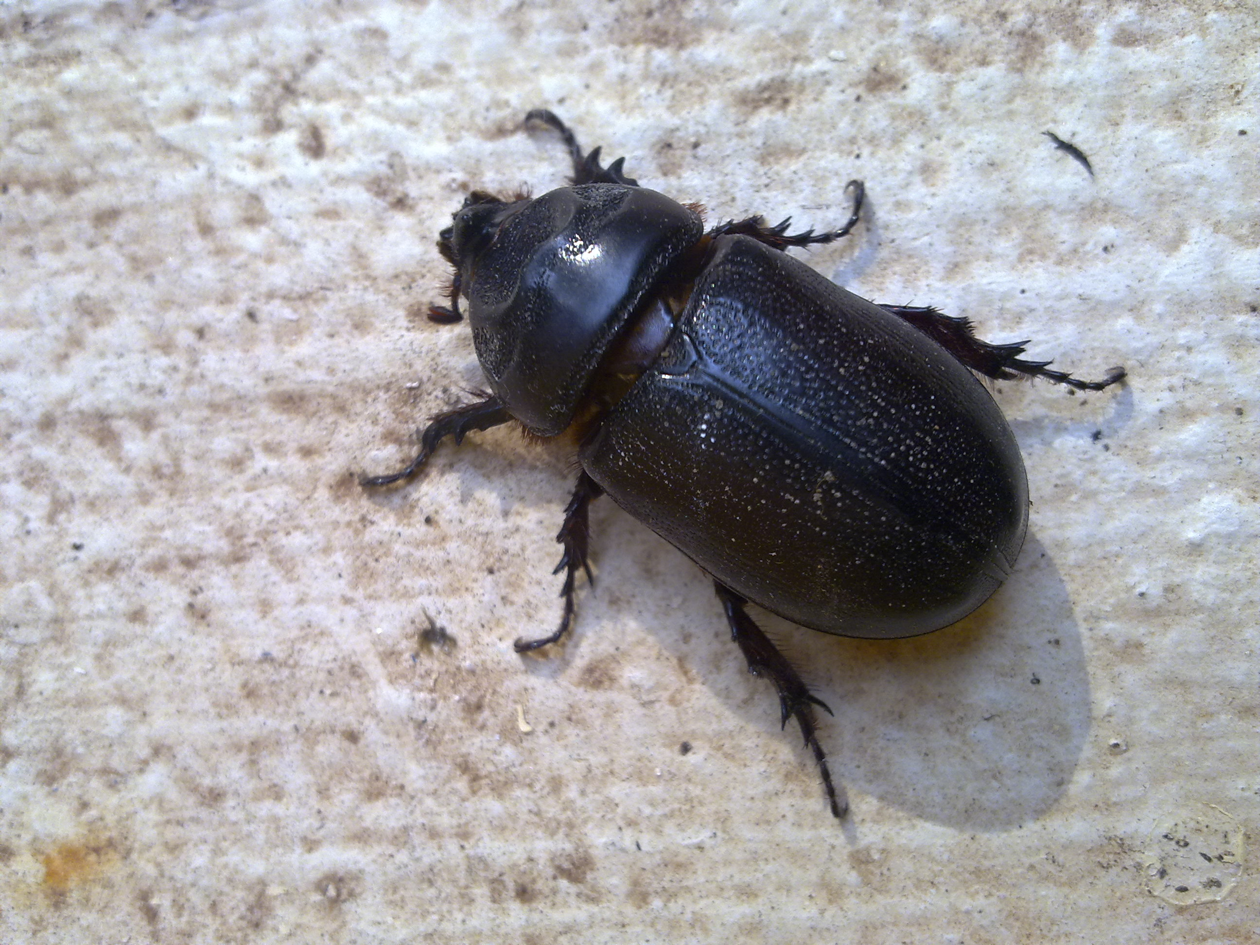 Female Asian rhinoceros beetle